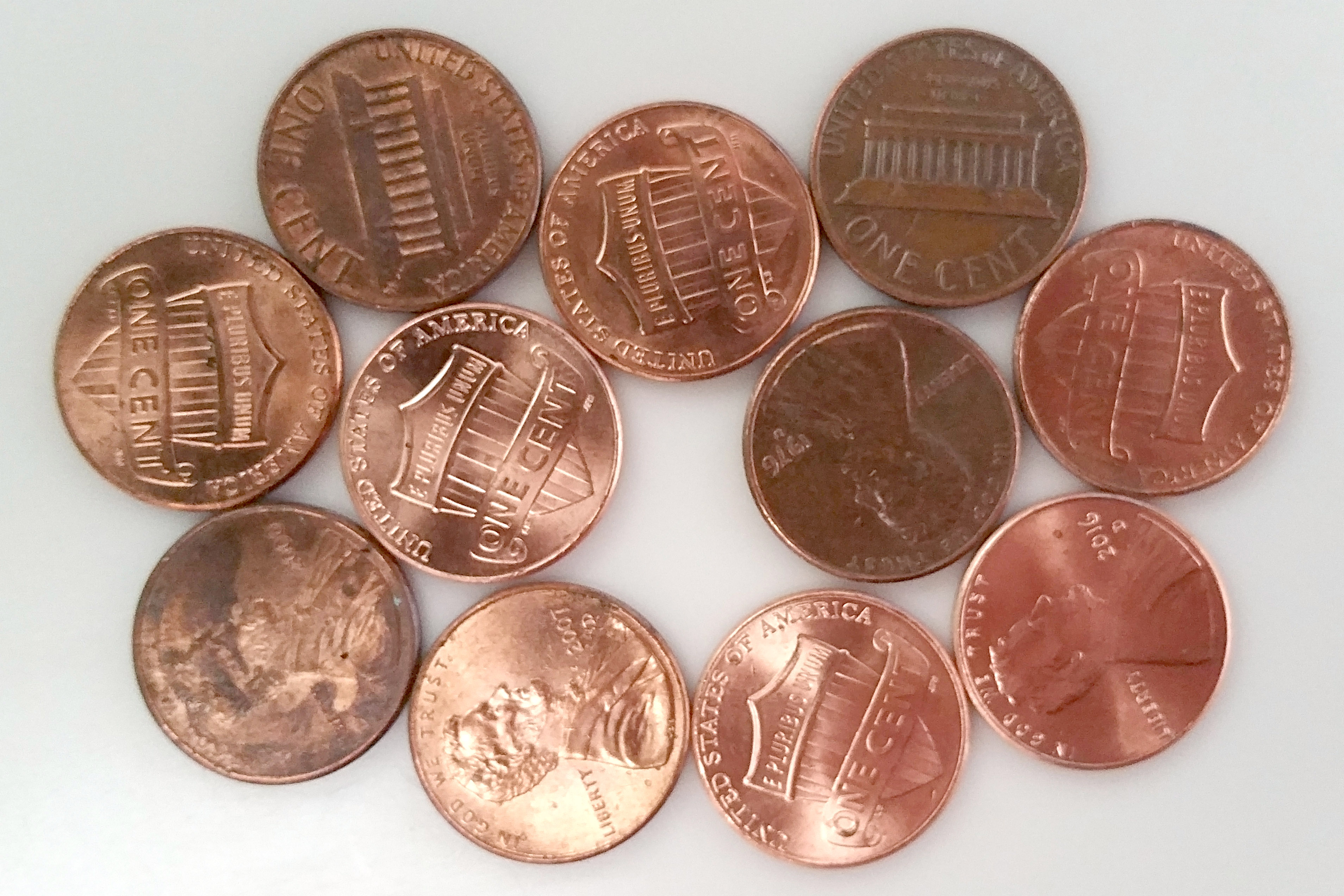 A penny graph with 11 vertices and 19 edges that requires four colors in any graph coloring